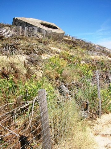 German bunker on a beach in Ile de Re. 2005 personnal photograph